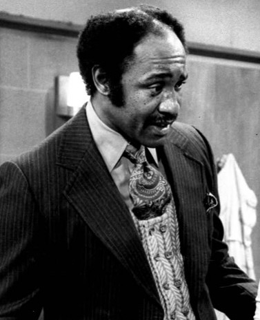 Photo from the television program Good Times. Pictured are Ja'net DuBois (Wilona) and her boyfrield played by J.A. Preston.